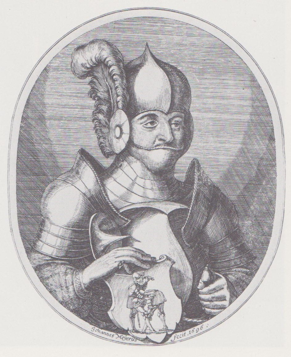 Rüdiger II. von Manesse